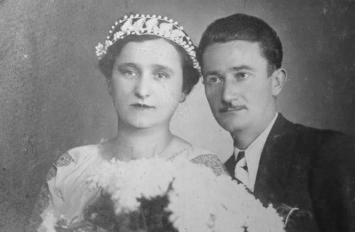 Momcilo Gavric with his wife Kosara, in 1939.